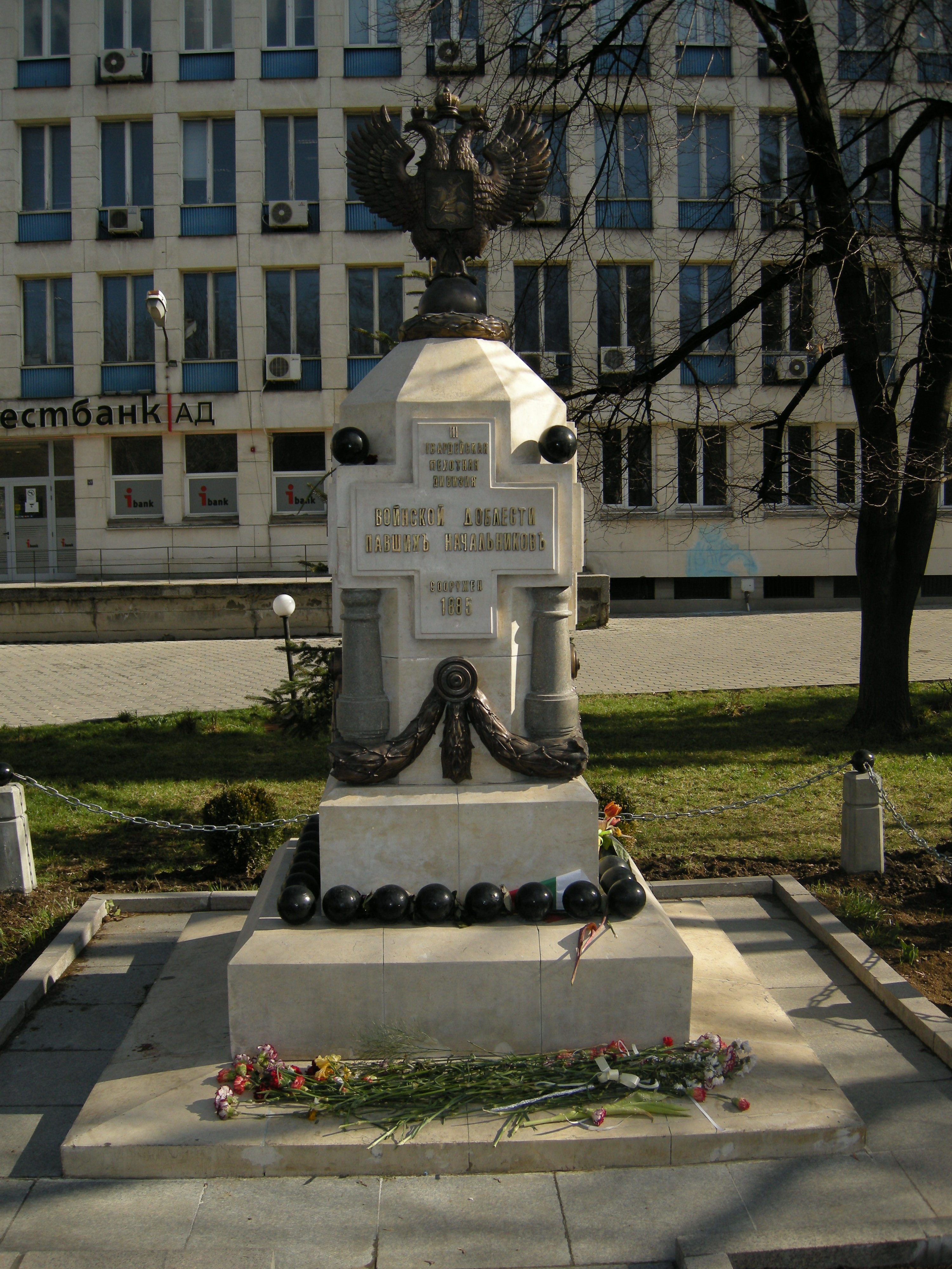 Monument of Third Guardian Infantry Division, take part in the War for liberation of Bulgaria from ottoman yoke (1877/78). The monument is situated on "Tsarigradsko schosse" Blvd., in front of the building of the Bulgarian telegraph agency.